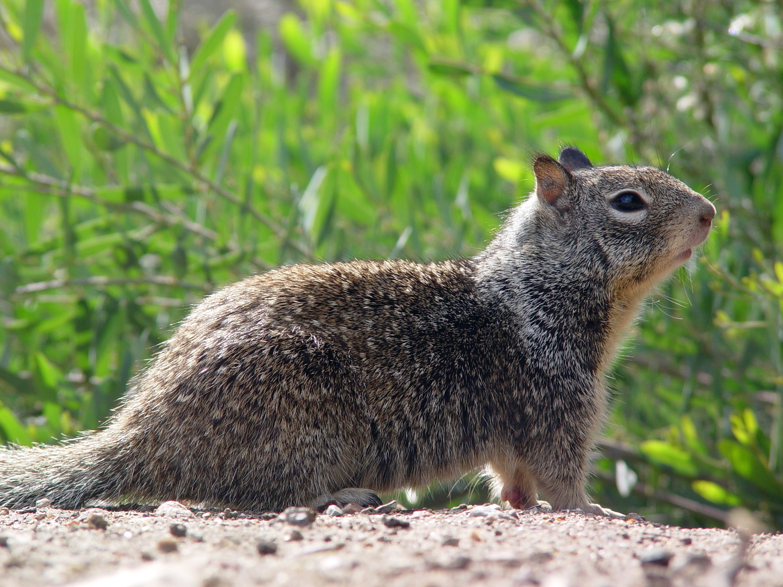 California Ground Squirrel (Spermophilus beecheyi). Taken in Thousand Oaks, California.